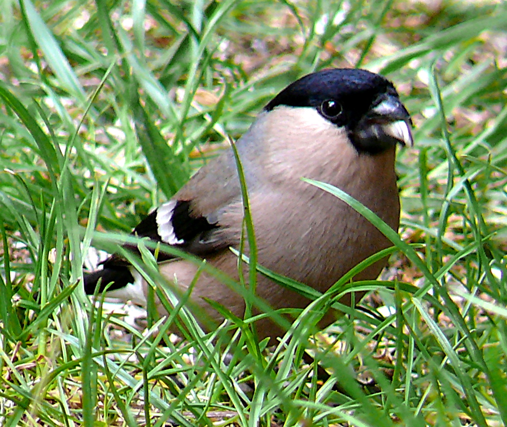 Female of Pyrrhula pyrrhula